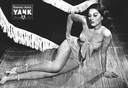 Pin-up photo of Ramsay Ames for the April 20, 1945 issue of Yank, the Army Weekly, a weekly U.S. Army magazine fully staffed by enlisted men.